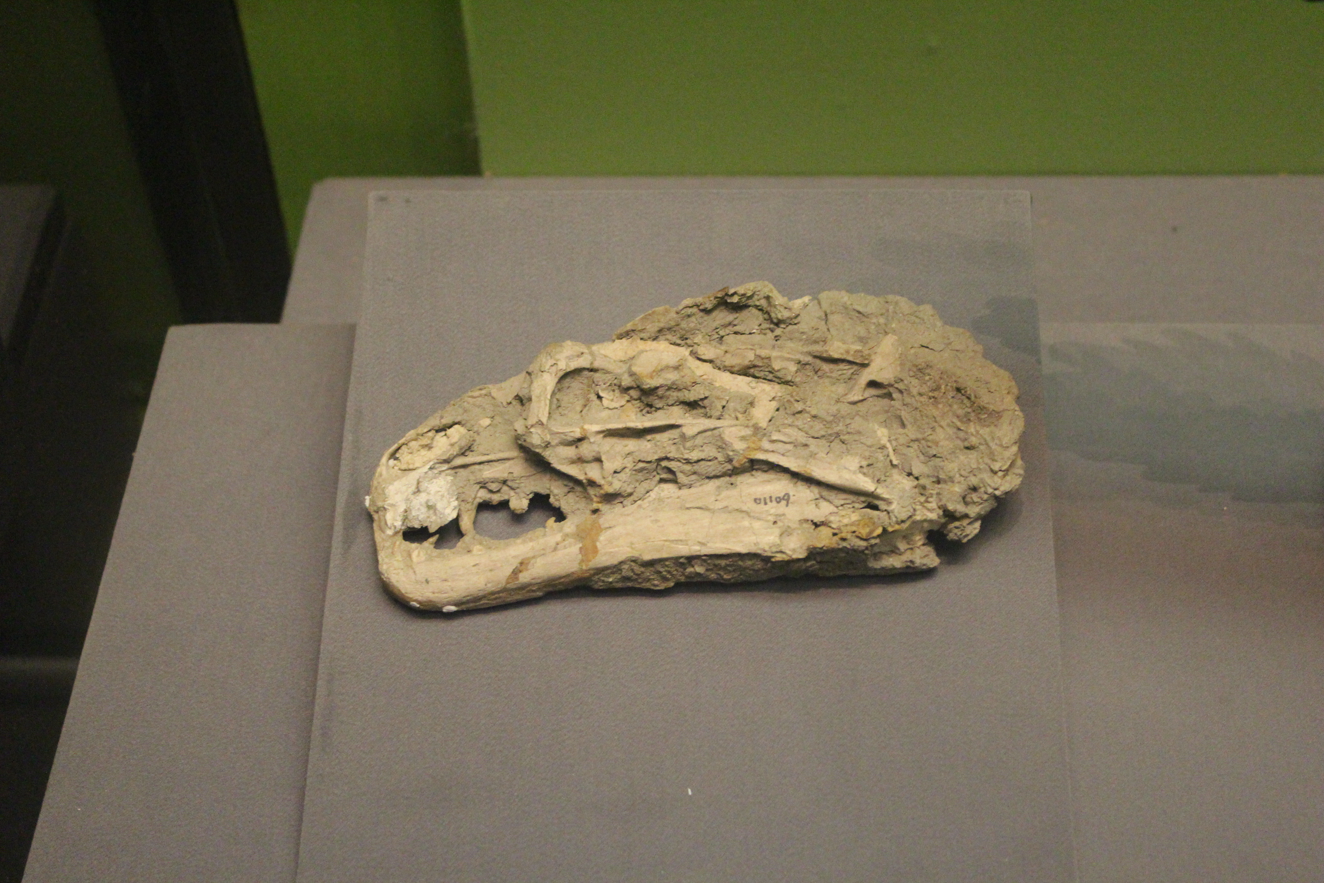 Skull of Dilong paradoxus on display at the Tianjin Natural History Museum.